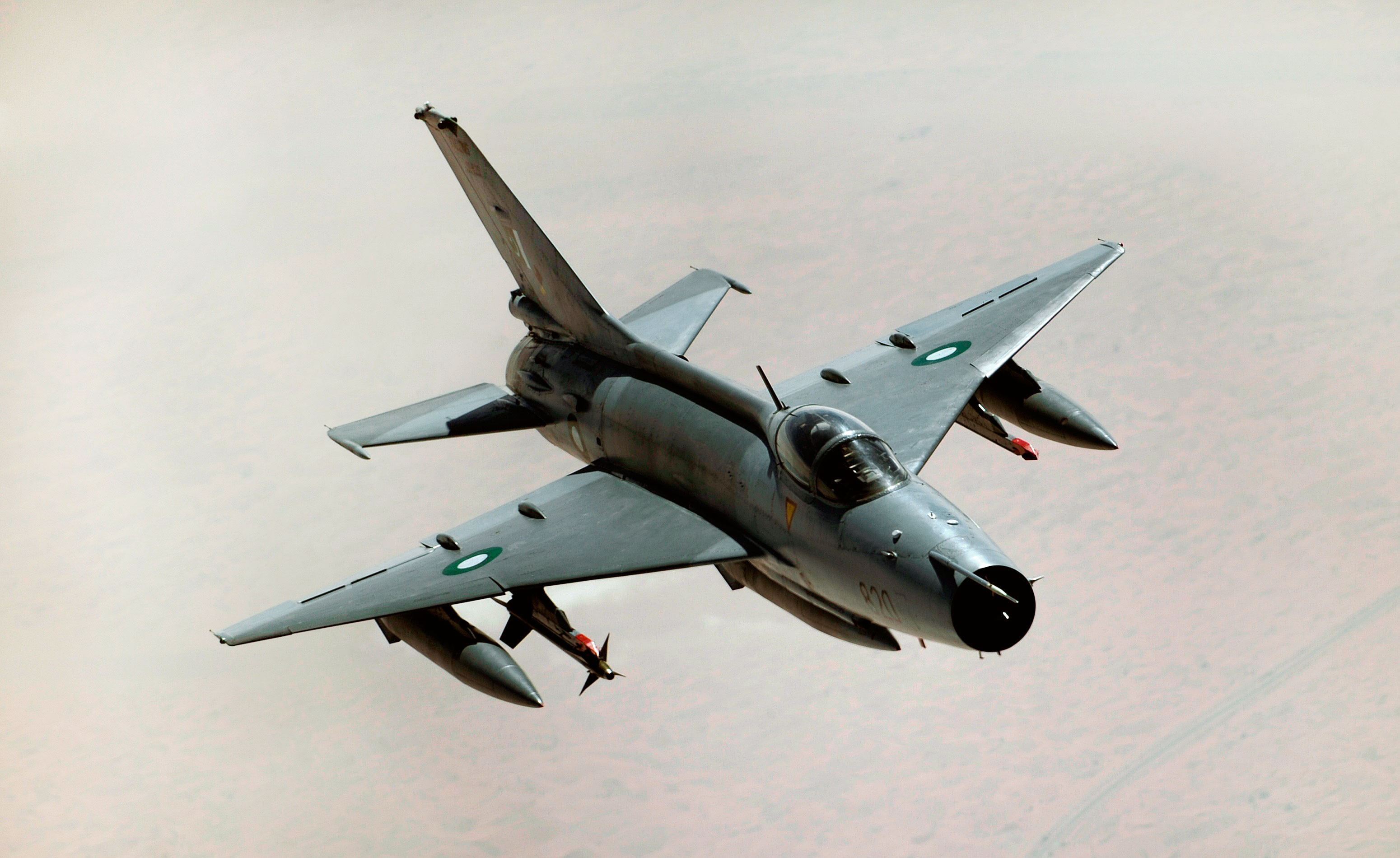 A Pakistani Chengdu F-7PG aircraft conducts a training mission during a multinational exercise Dec. 9, 2009, in Southwest Asia. Aircrews from France, Jordan, Pakistan, the U.A.E., the U.K. and the U.S. are training together in the Air Forces Central area of responsibility.